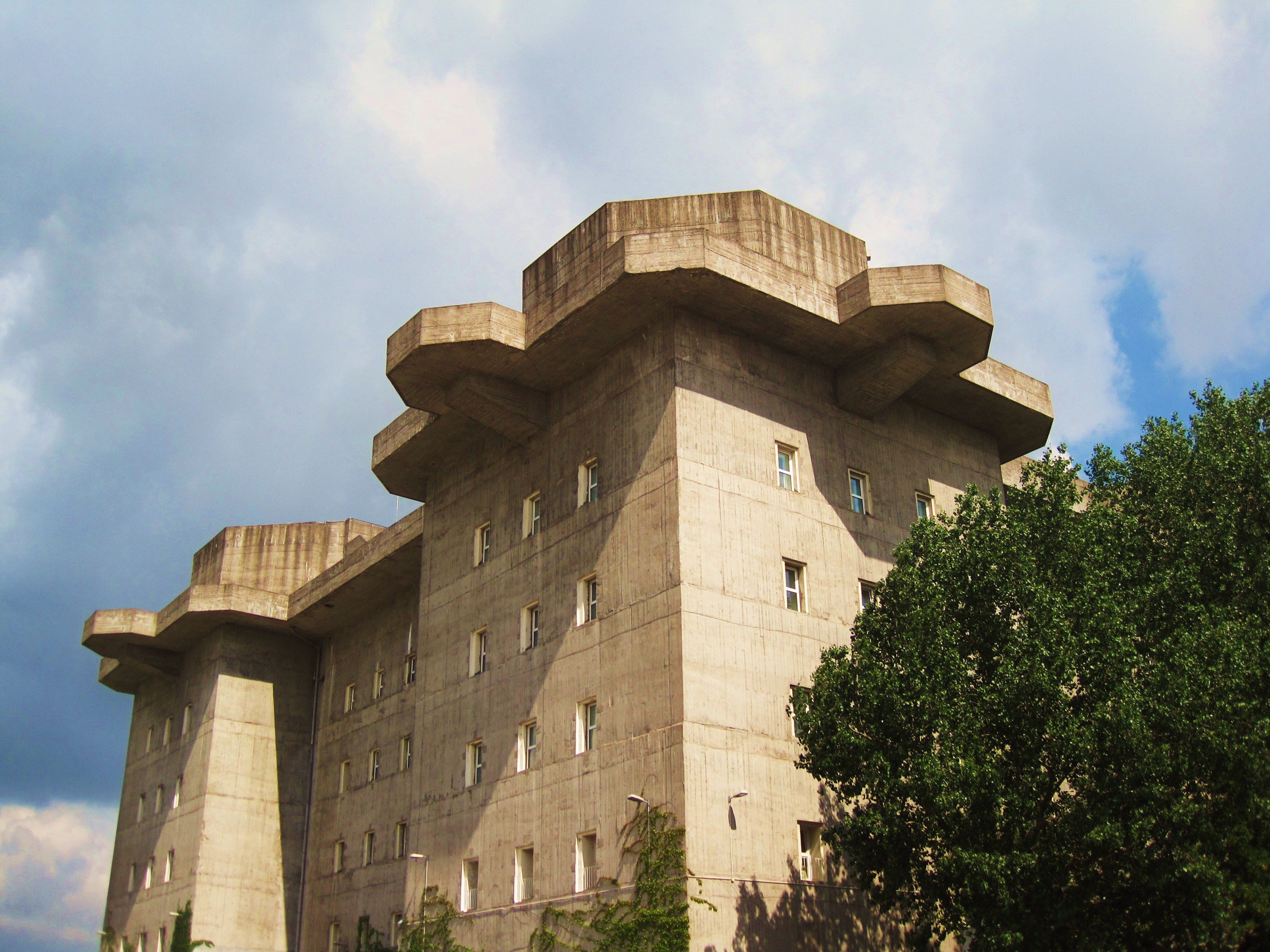 The Flak tower near Heiligengeistfeld in Hamburg, Germany.The Flak tower near Heiligengeistfeld in Hamburg, Germany.